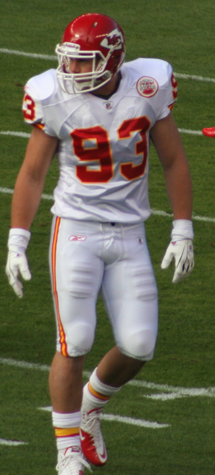 Cory Greenwood, a player on the Kansas City Chiefs American football team.